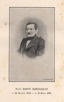 Santo Garovaglio portrait